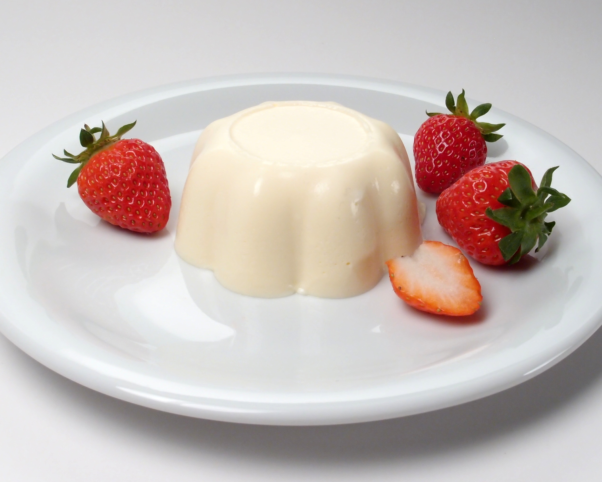 A serving of Bavarian cream with strawberries. Bavarian cream is a milk-based, gelatin-set vanilla dessert with whipped cream. Despite its name, it is believed to have originated in France.